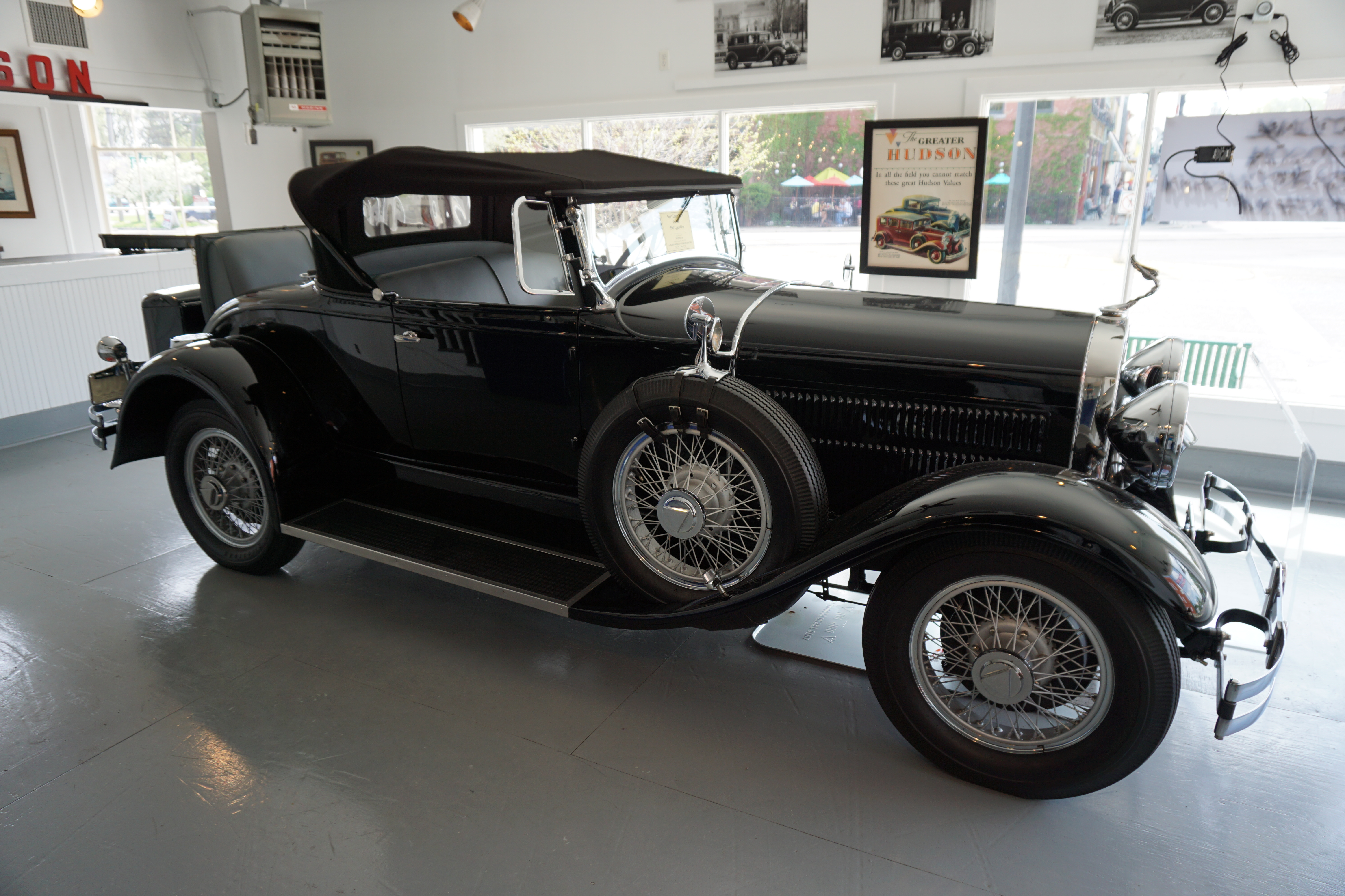 A 1929 Hudson Roadster at the Ypsilanti Automotive Heritage Museum in Ypsilanti, Michigan (United States).